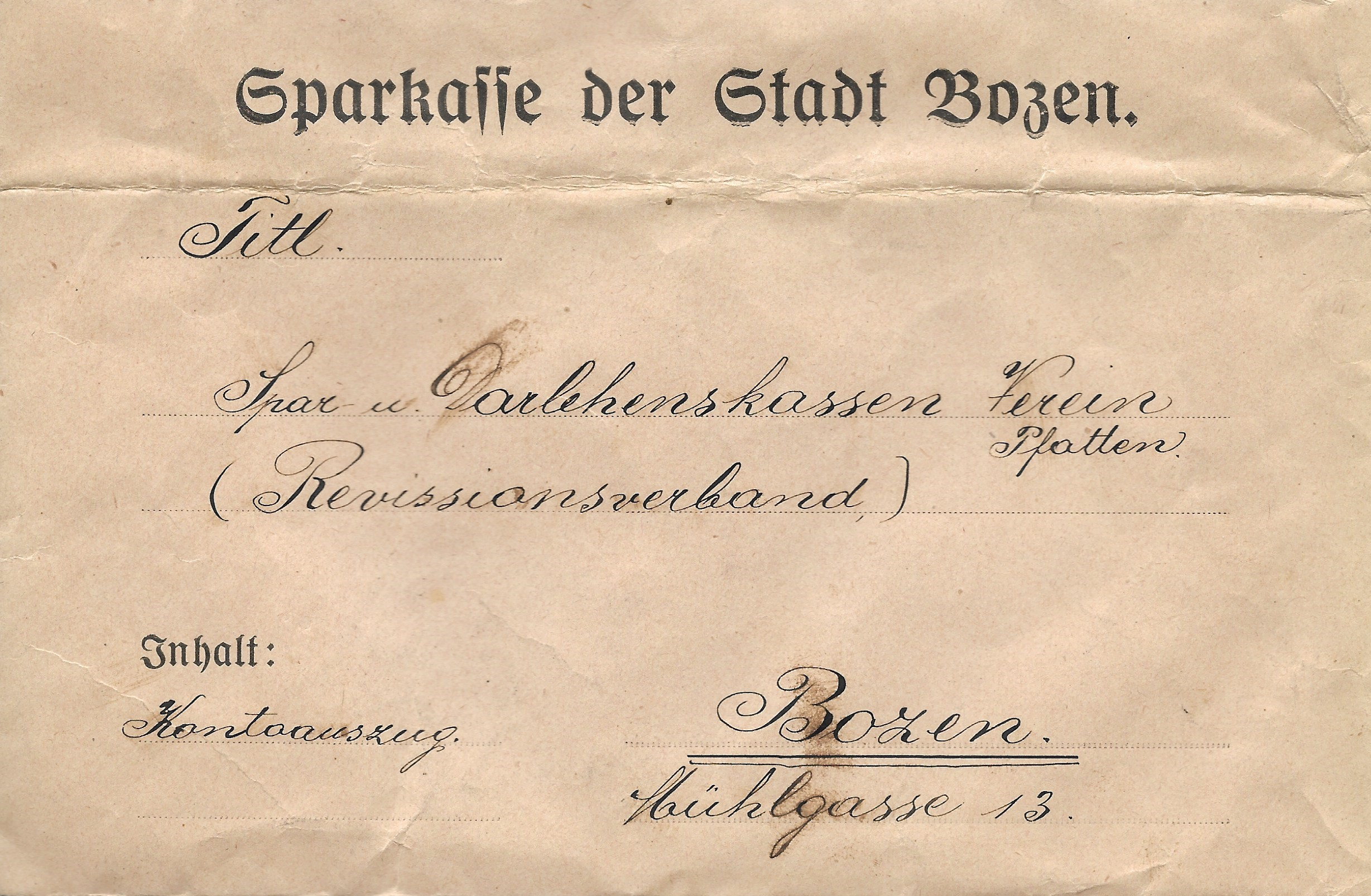 Envelope of the Sparkasse der Stadt Bozen (Bolzano, South Tyrol) from 1920 ca